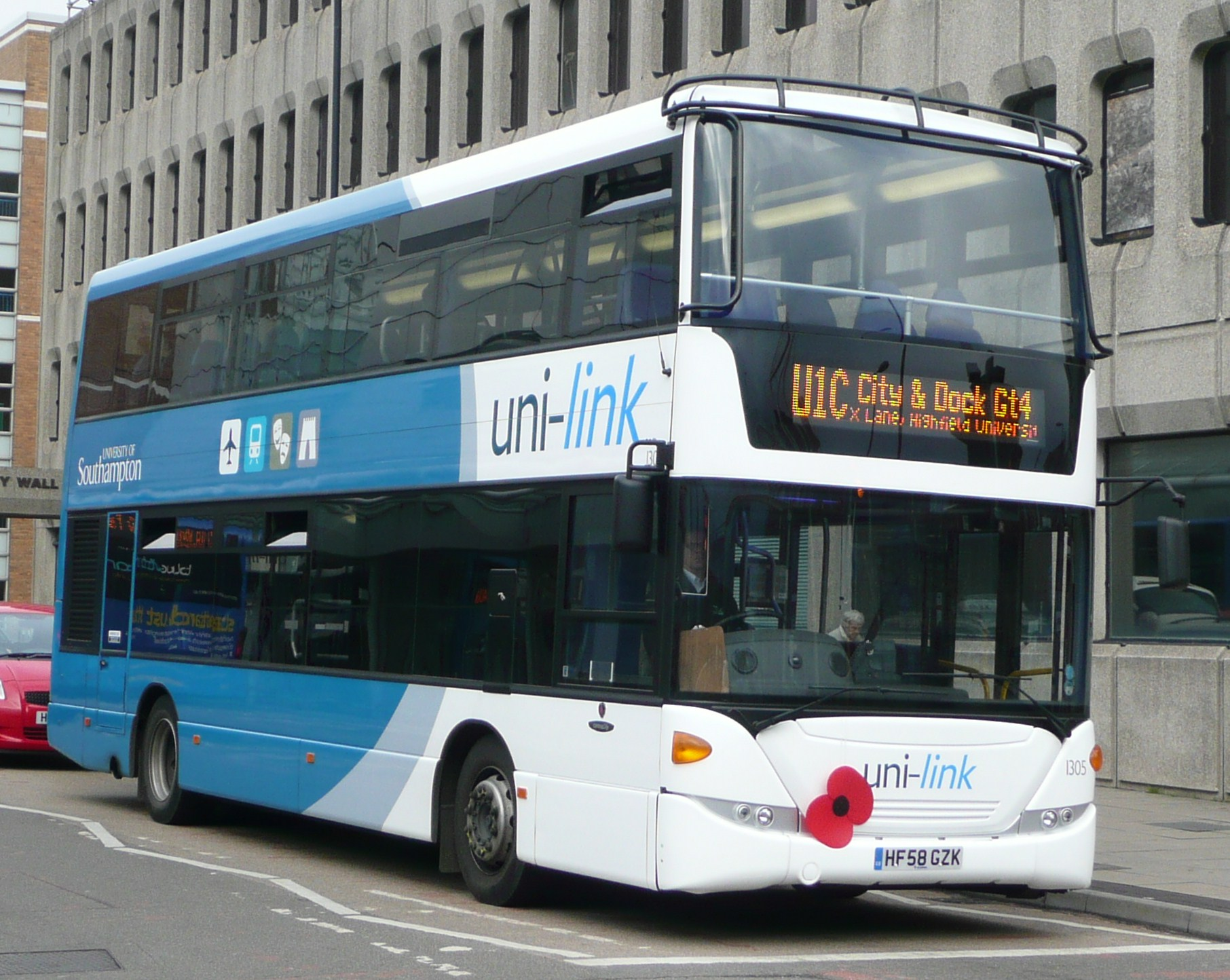 Bluestar 1305 (HF58 GZK), a double-deck Scania OmniCity, in Portland Terrace, Southampton on Uni-link route U1C.